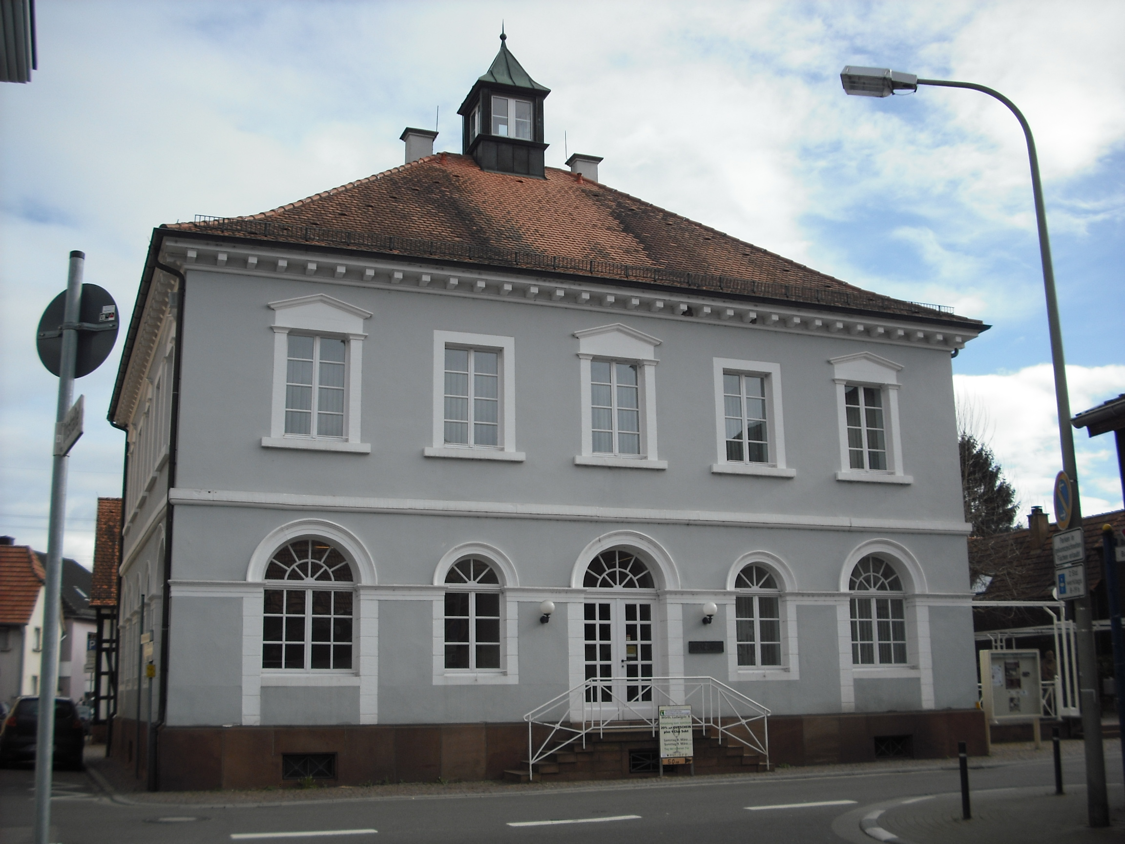 Woerth Old Town Hall